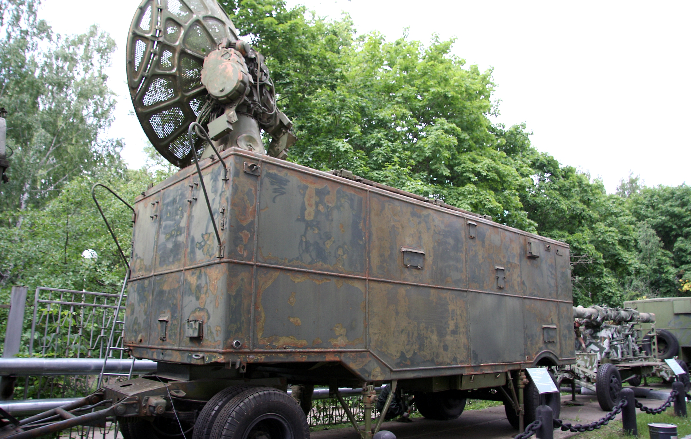 Air Defense History Museum in Zarya in Moscow Oblast.